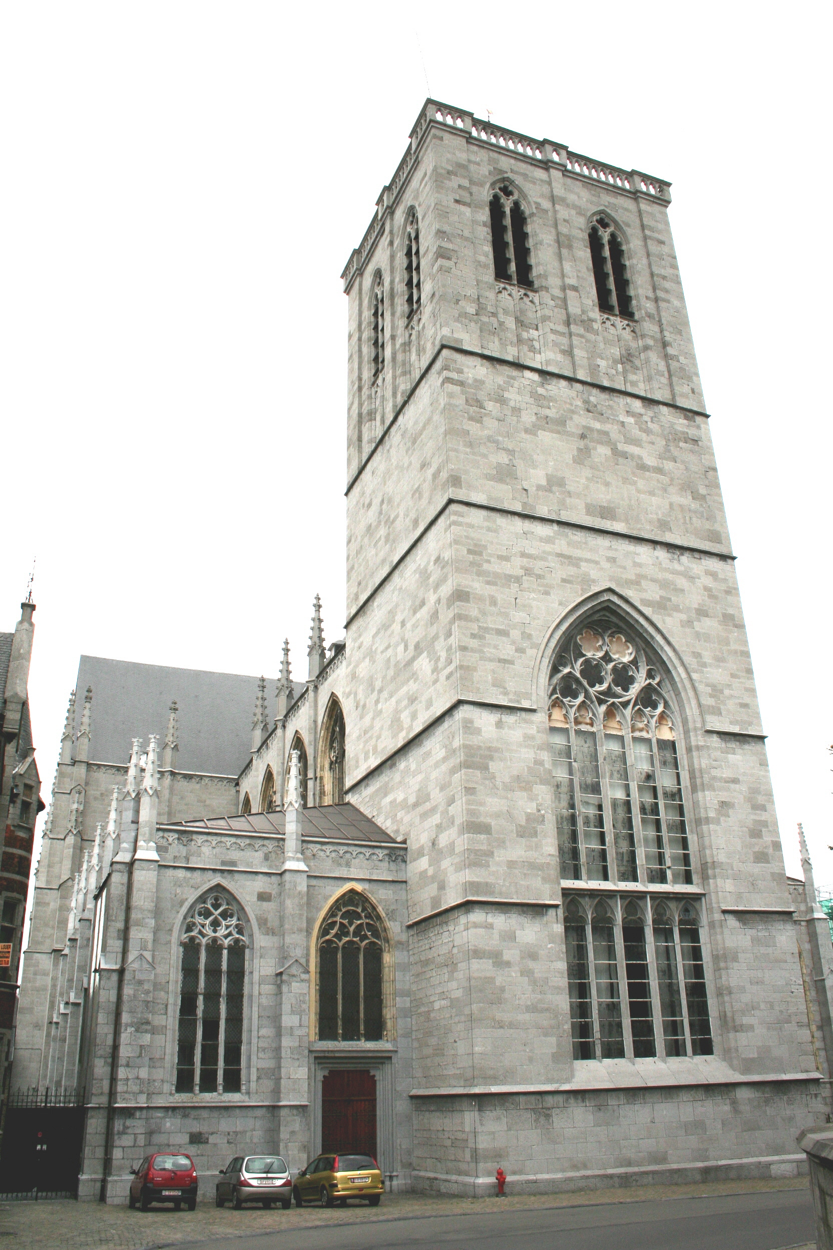 Liège (Belgium), the Basilica of Saint Martin (1506-1542).